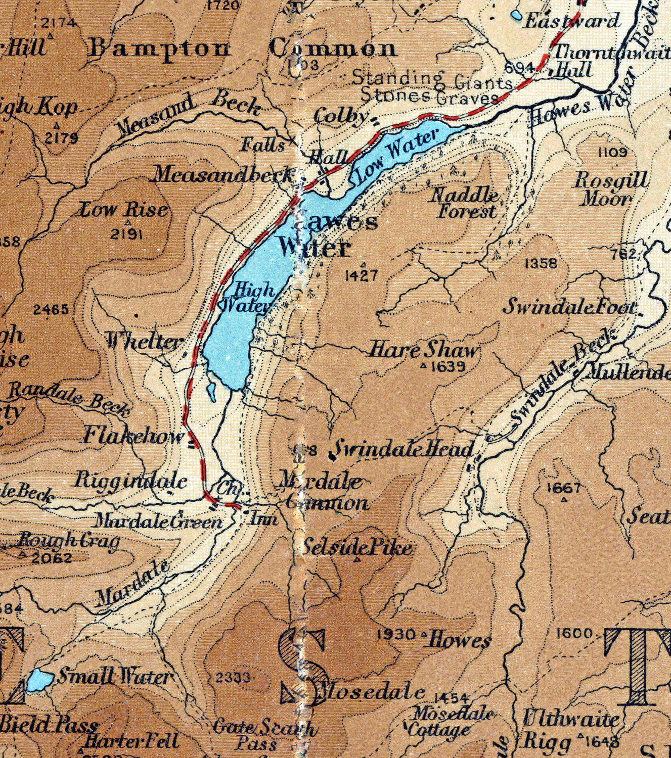 1924 map of Haweswater before it was converted and extended into a reservoir by Manchester Corporation